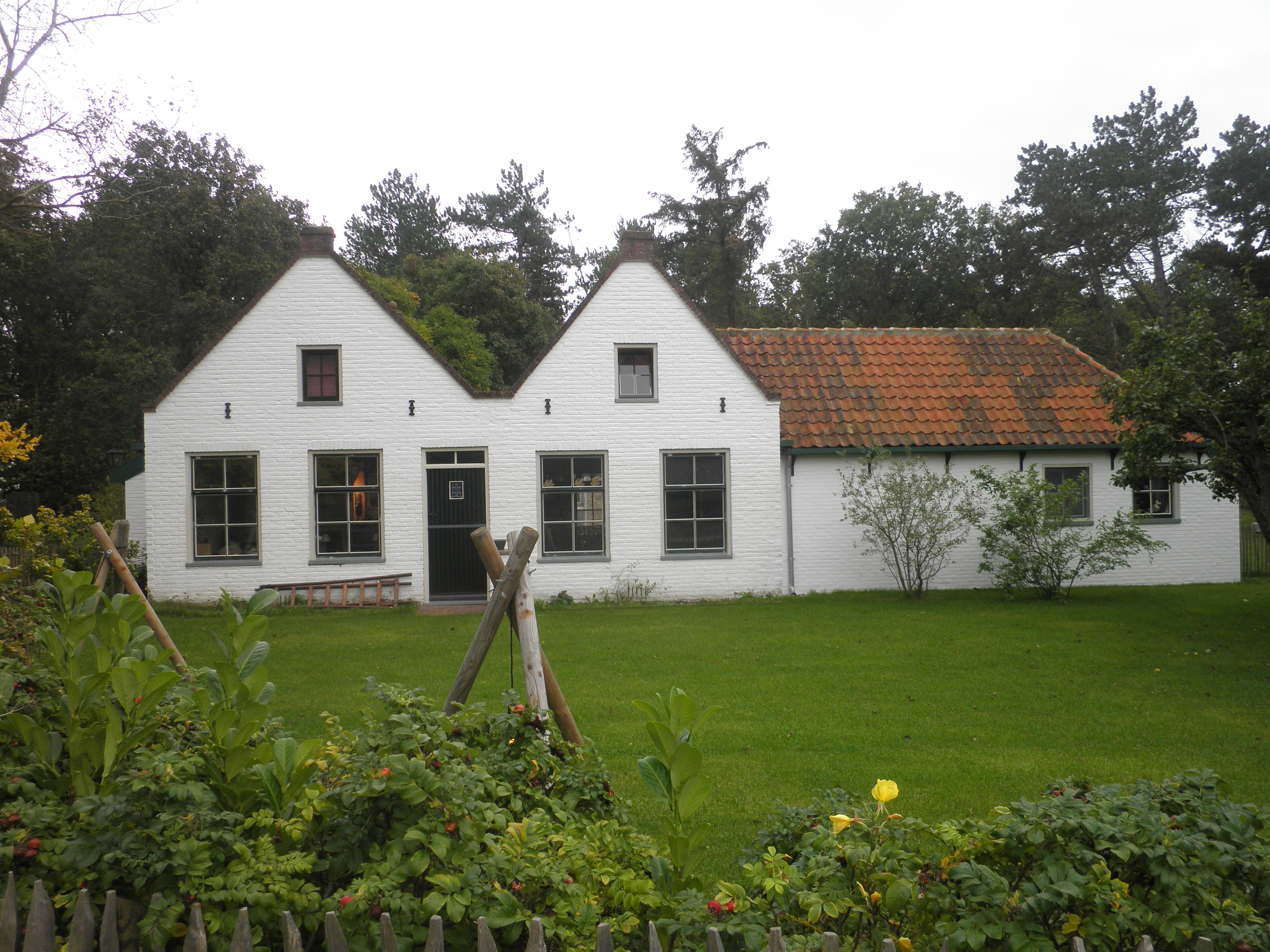 Doodemanskisten House, 19th century foresters' dwelling with two parallel gable roofs at Buiten de Kom 4 in West-Terschelling in the Netherlands. Nationally listed heritage.